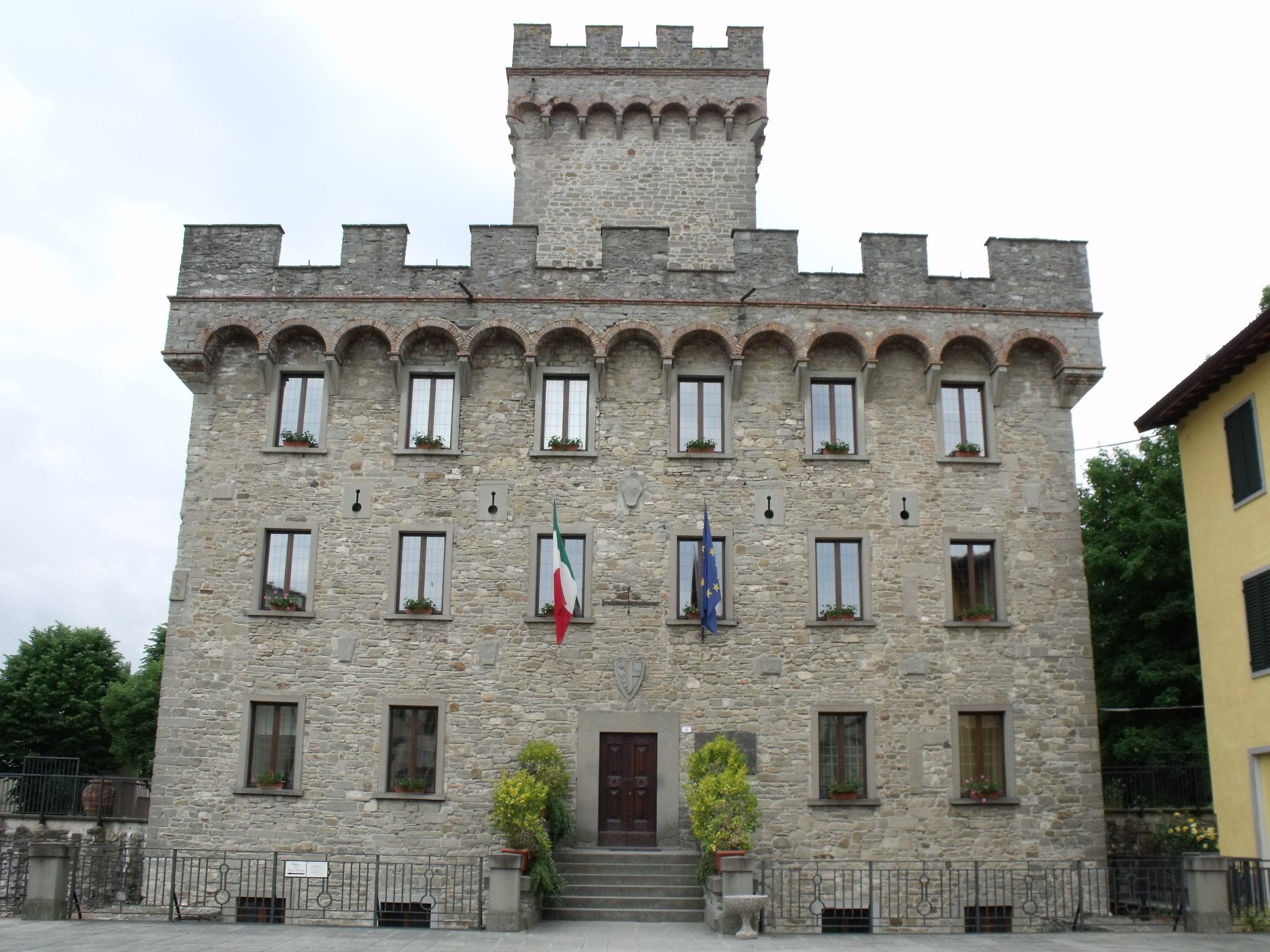 Palazzo Pretorio in Firenzuola, Province of Florence, Tuscany, Italy